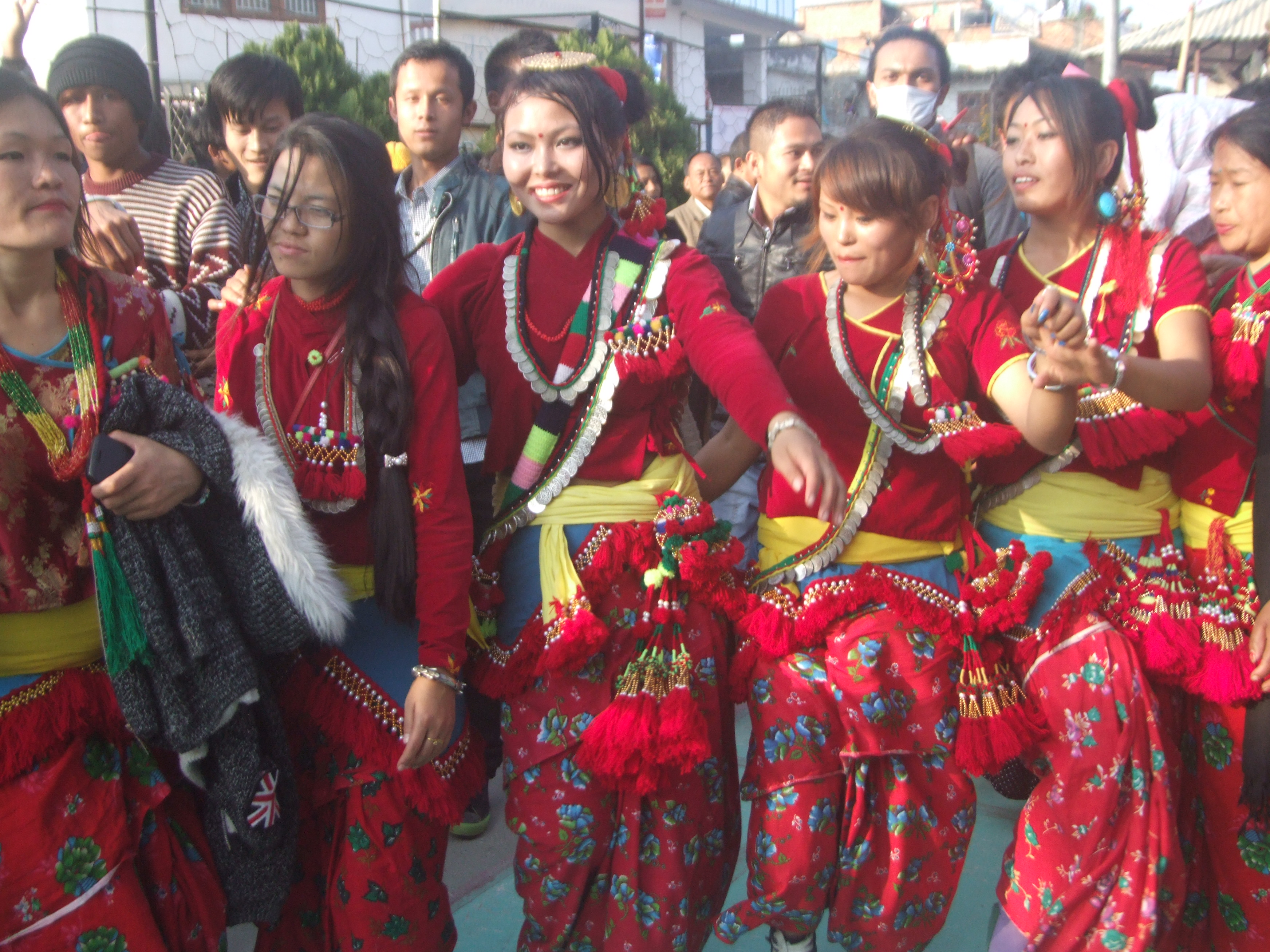 Sunuwar Udhauli at Nakhipot, Lalitpur, Nepal 6 Dec. 2014